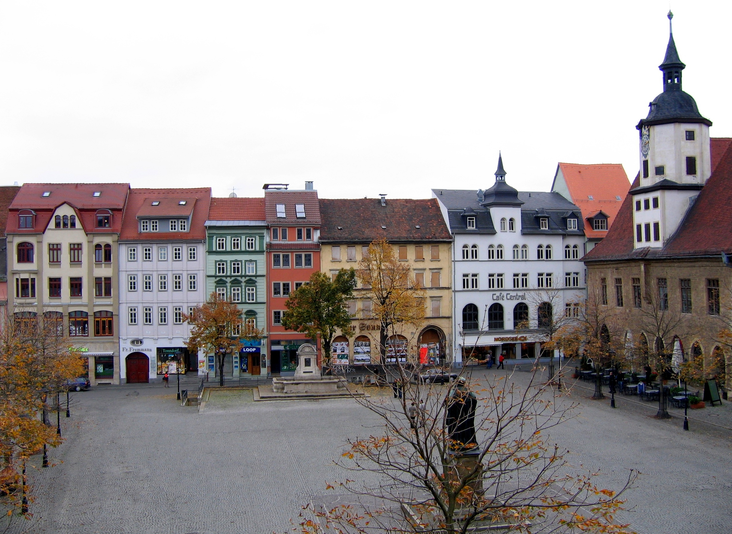 Marketplace Jena